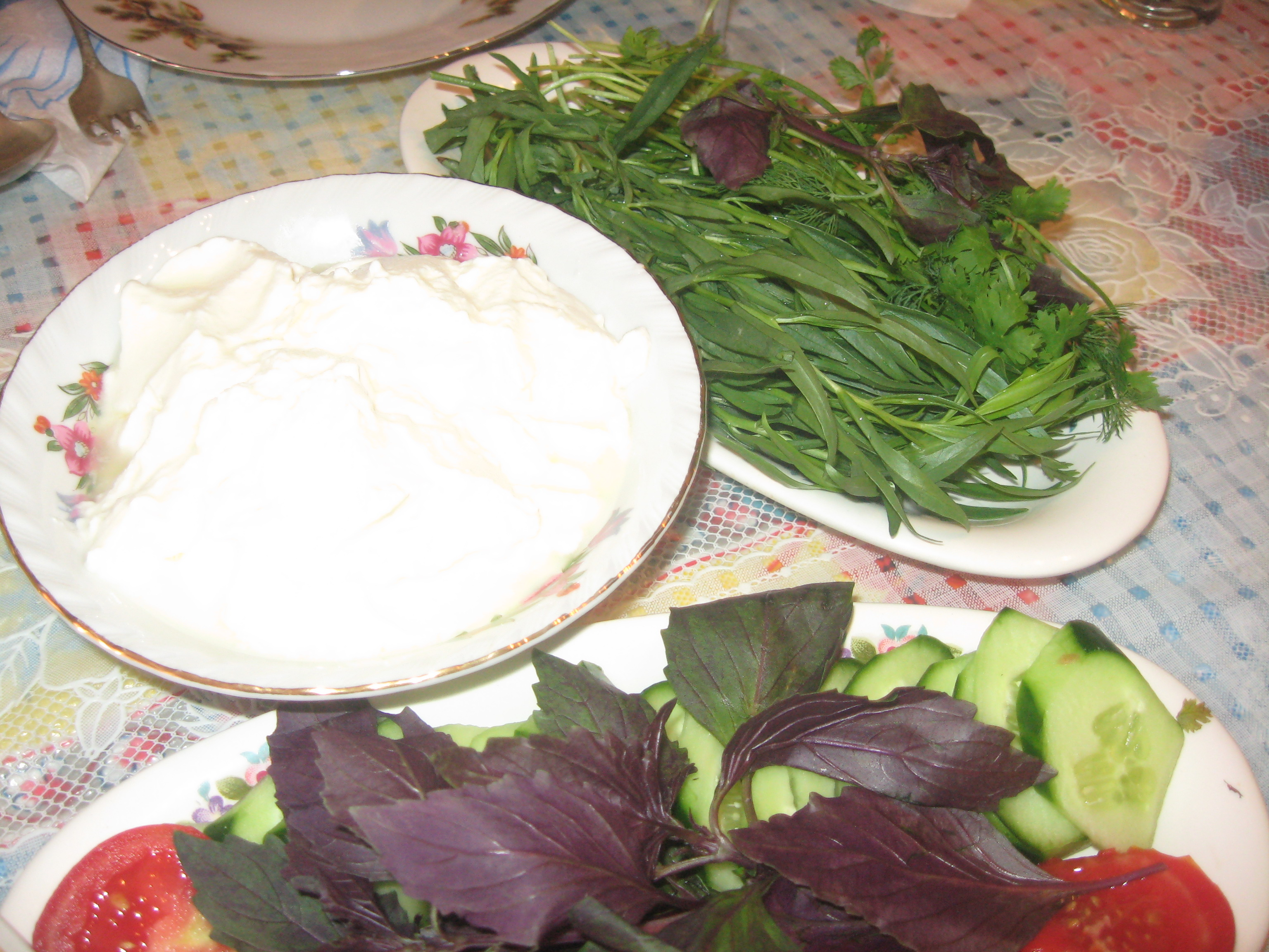 sour clotted milk